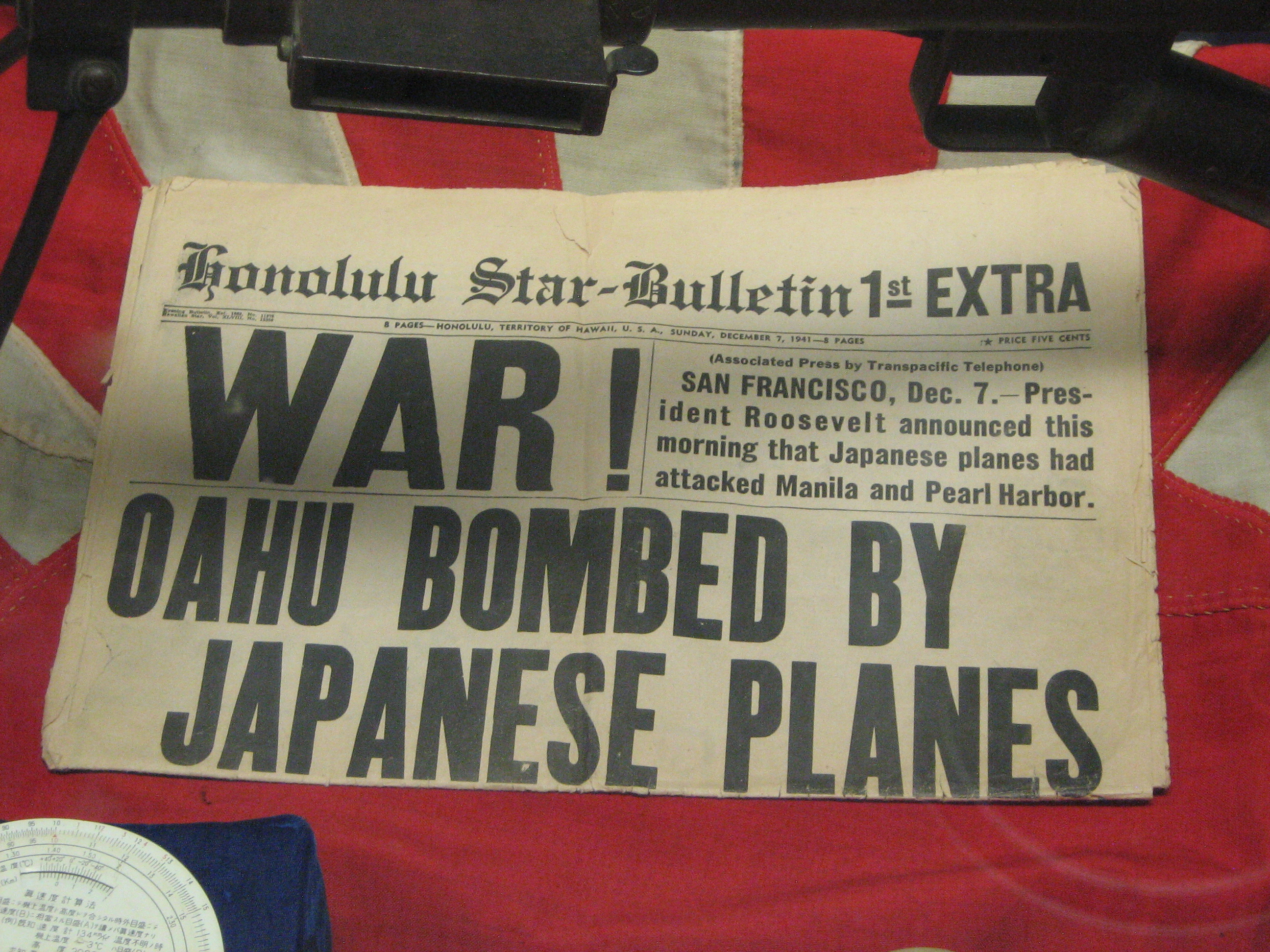 The front page of the Honolulu Star-Bulletin, 1st Extra, December 7th, 1941, as shown at the Castle Air Museum. It reads: Honolulu Star-Bulletin 1st EXTRA WAR! (Associated Press by Transpacific Telephone) SAN FRANCISCO, Dec. 7.--President Roosevelt announced this morning that Japanese planes had attacked Manila and Pearl Harbor. OAHU BOMBED BY JAPANESE PLANES